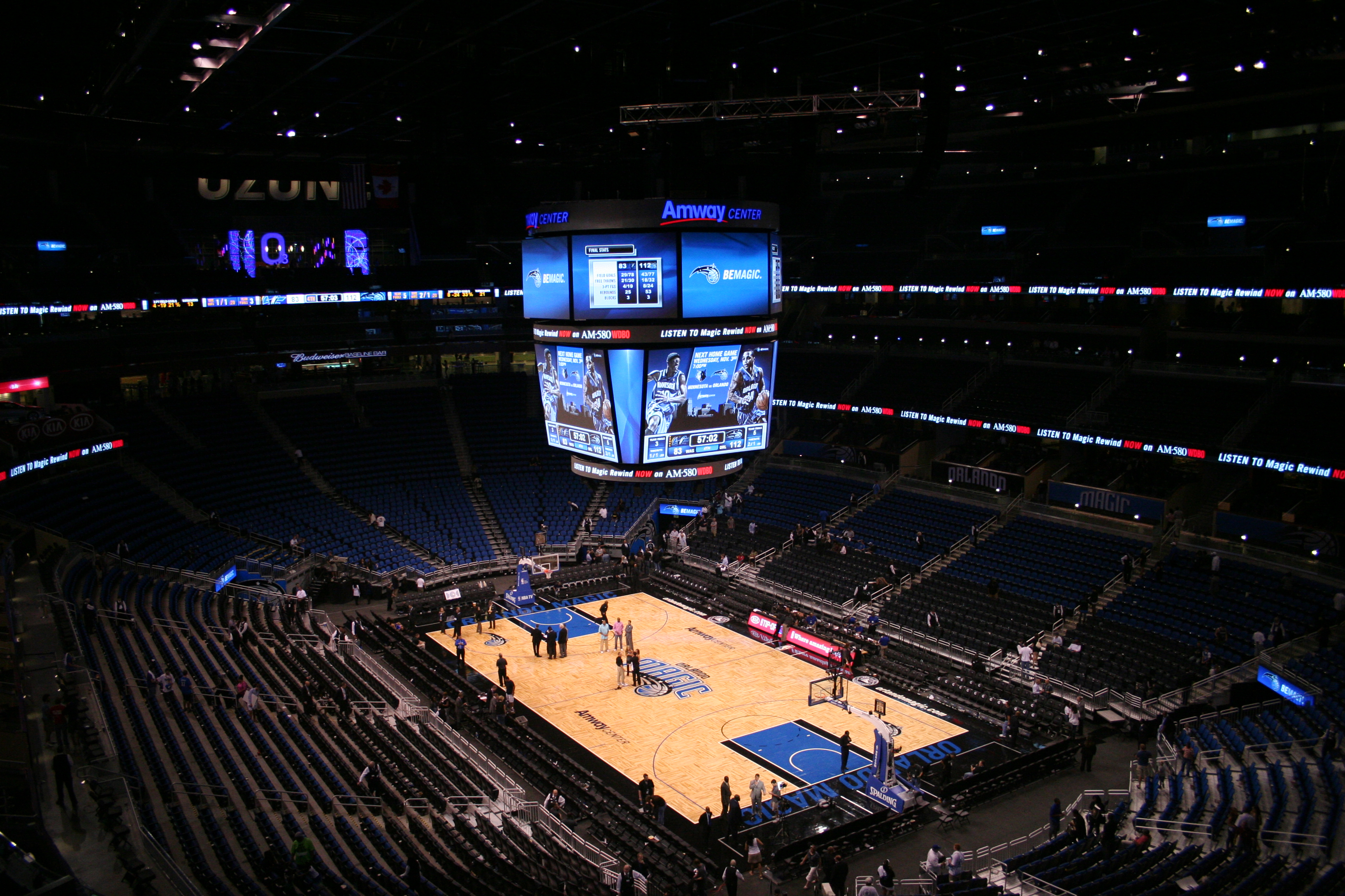 Magic home game at Amway Center. First NBA regular season game at Amway Center against the Washington Wizards.